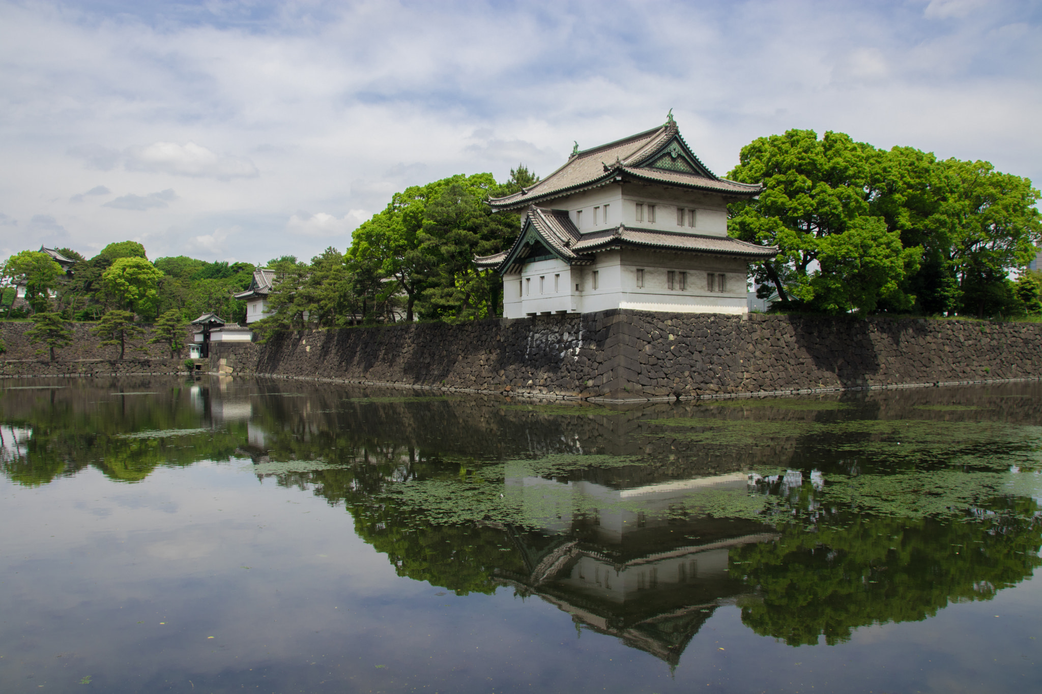 500px provided description: A part of the outside wall of Tokyos imperial palace [#sky ,#landscape ,#water ,#reflection ,#nature ,#travel ,#house ,#old ,#tourism ,#architecture ,#tree ,#summer ,#building ,#beautiful ,#outdoors ,#traditional]